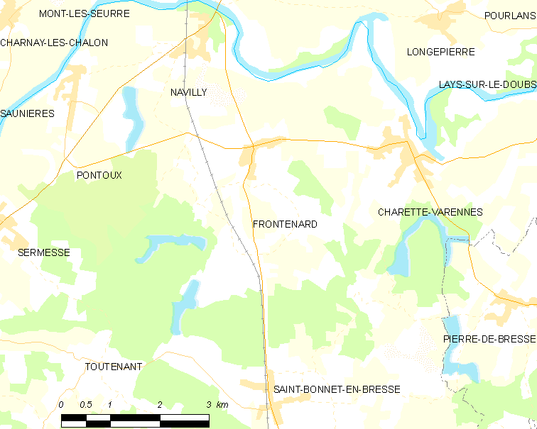 Map of French municipality